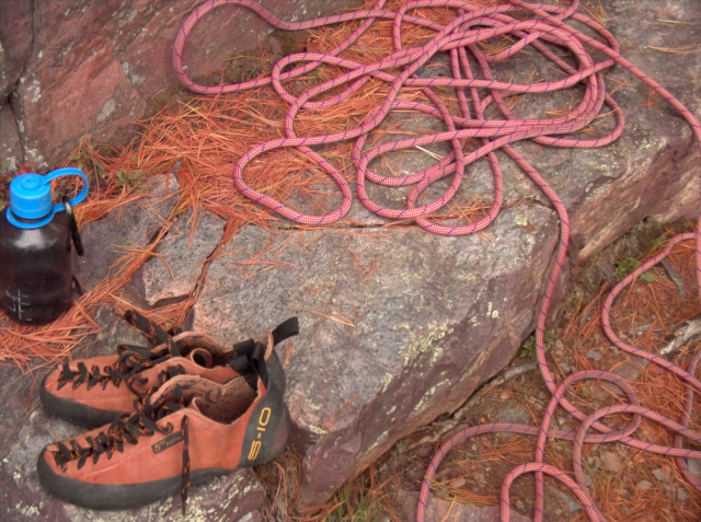 Author: Rene Horn This picture was taken at Devil's Lake State Park. It was color-corrected. The rock is actually quite red.